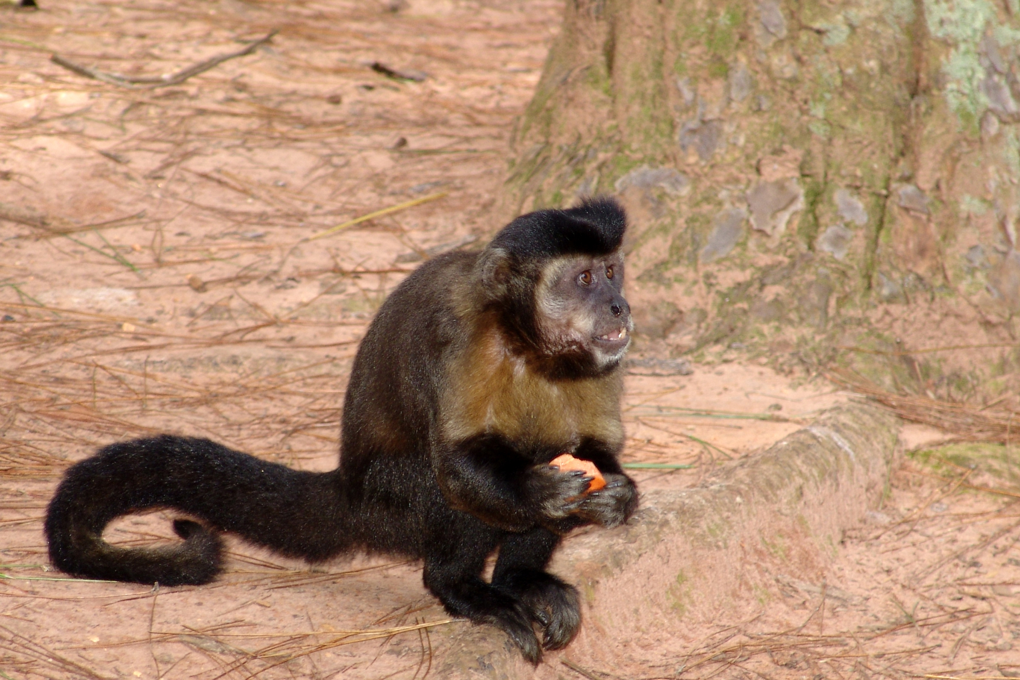 Tufted Capuchin (Cebus nigritus). Photo shot in natural habitat, the animal is not in captivity.